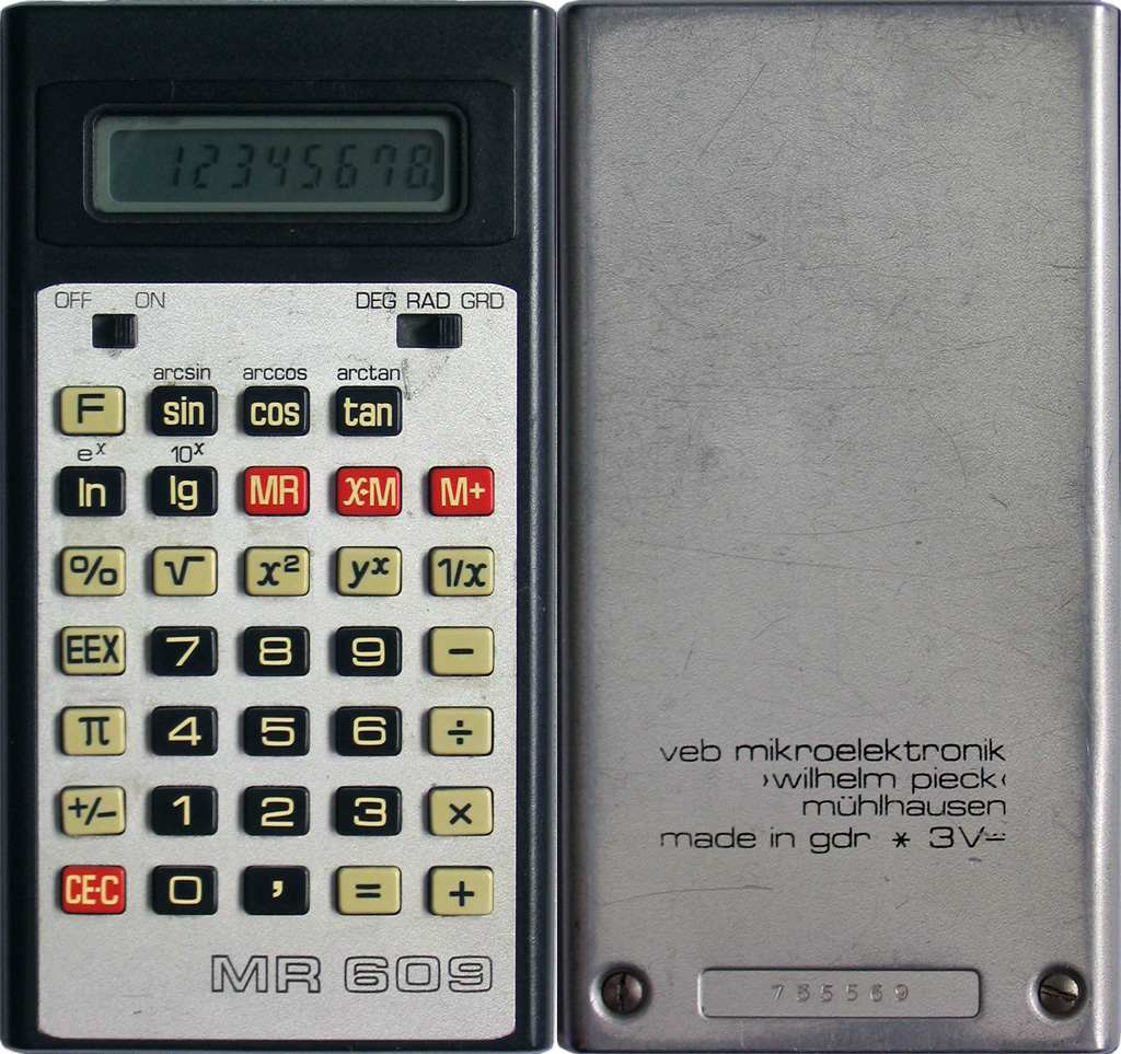 a simple calculator Name: Calculator MR 609 (identical in construction with SR1) Number of digits: 8-digit Measure: 13,2 x 7 x 0,8 cm Weight: 70 g Machine number: 735569 The price amounted 123 Mark. Probably bought in the year 1987. Does still have the batteries which were put in the factory. Manufacturer: VEB Mikroelektronik "Wilhelm Pieck", Mühlhausen